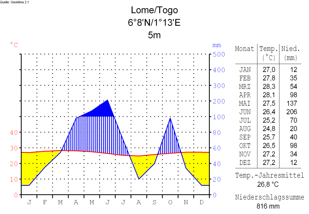 climate chart in the format by Walter and Lieth, metric, °Celsisus and millimeters, made with Geoklima 2.1